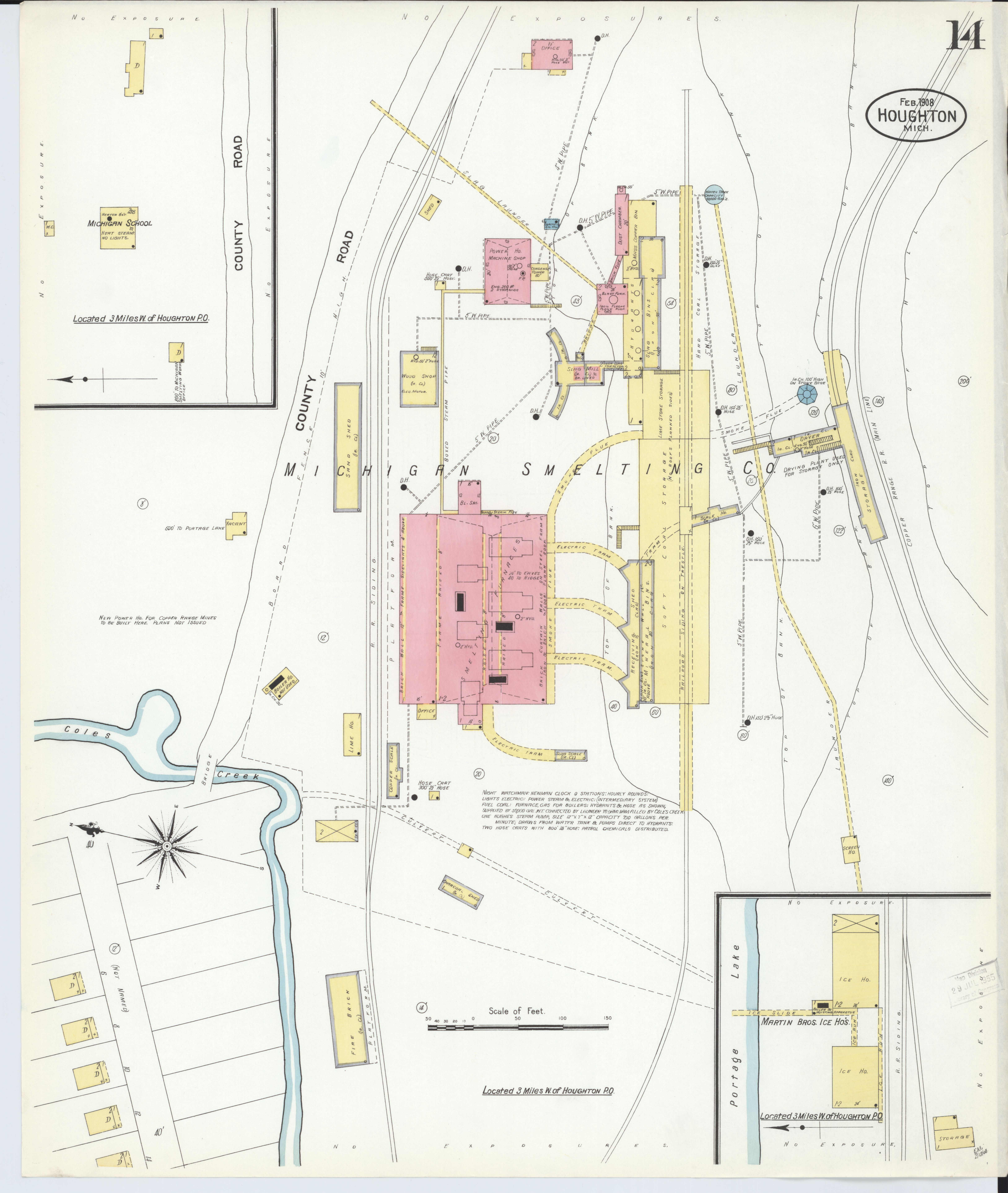 Feb 1908. 25 Sheet(s).